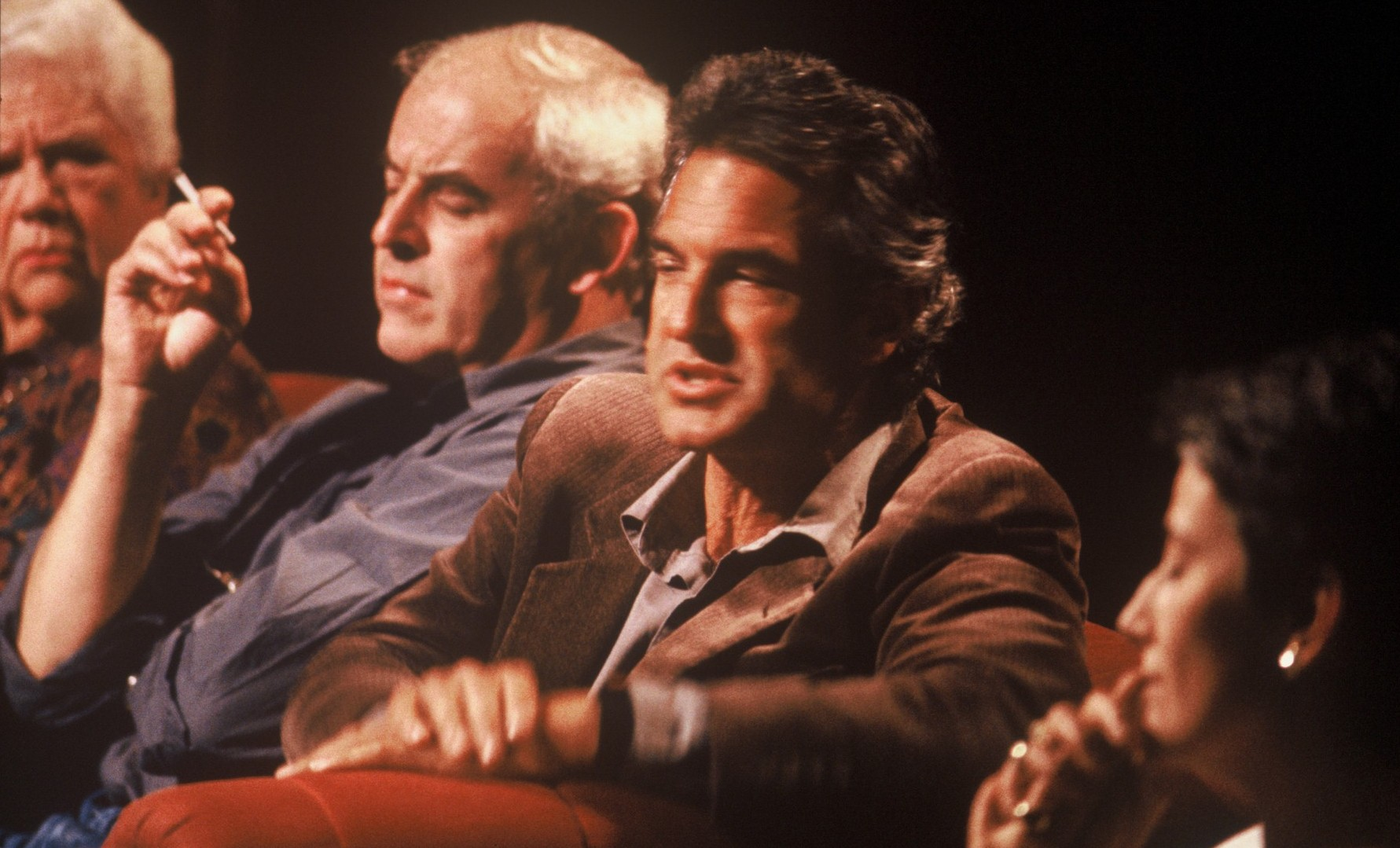 Jeffrey Masson appearing on After Dark on 23 September 1989. Other guests included Isabel Menzies Lyth (left), Ralph Steadman (centre with cigarette), Anna Raeburn (right) and Stuart Sutherland.